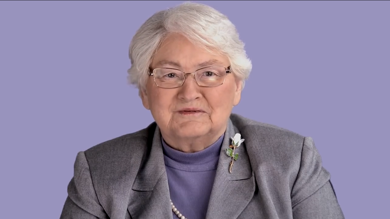 Image of chemist and entrepreneur Mary Lowe Good. The image is a screenshot from the Women in Chemistry video, created by the Chemical Heritage Foundation, in which she discusses her work.